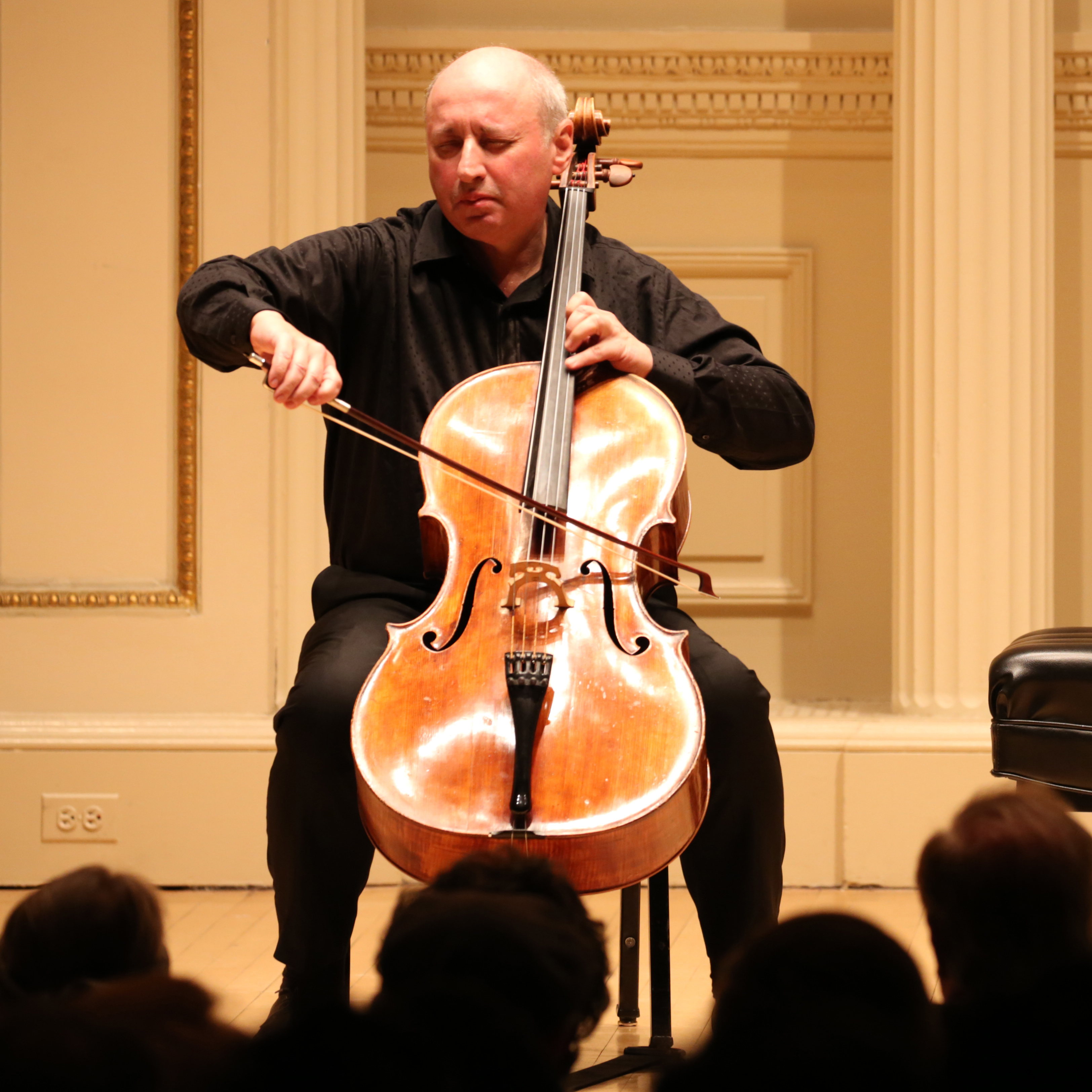 Misha Quint, cello